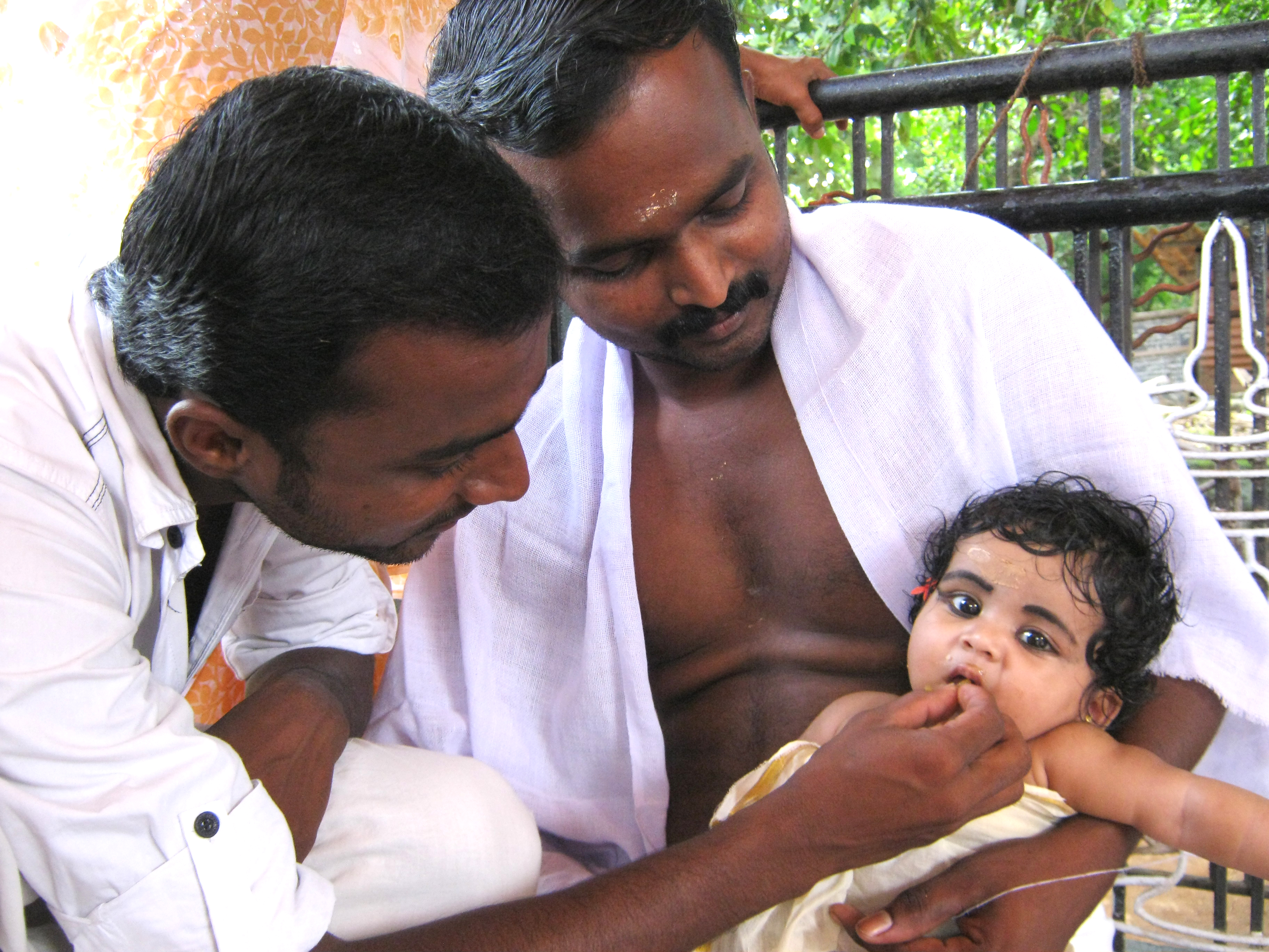 Hindu rituals